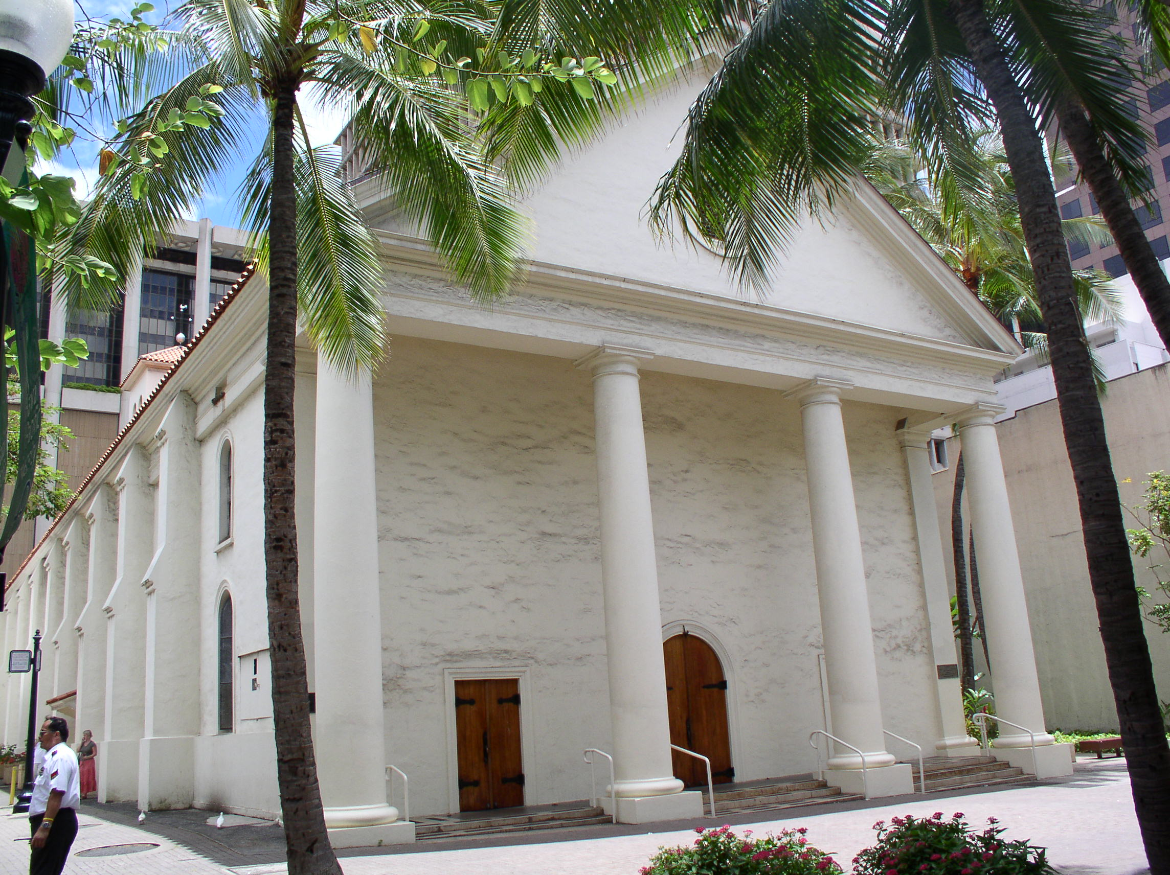 Western face (and main entrance) of Cathedral of Our Lady of Peace (Roman Catholic) in Honolulu, Hawaii